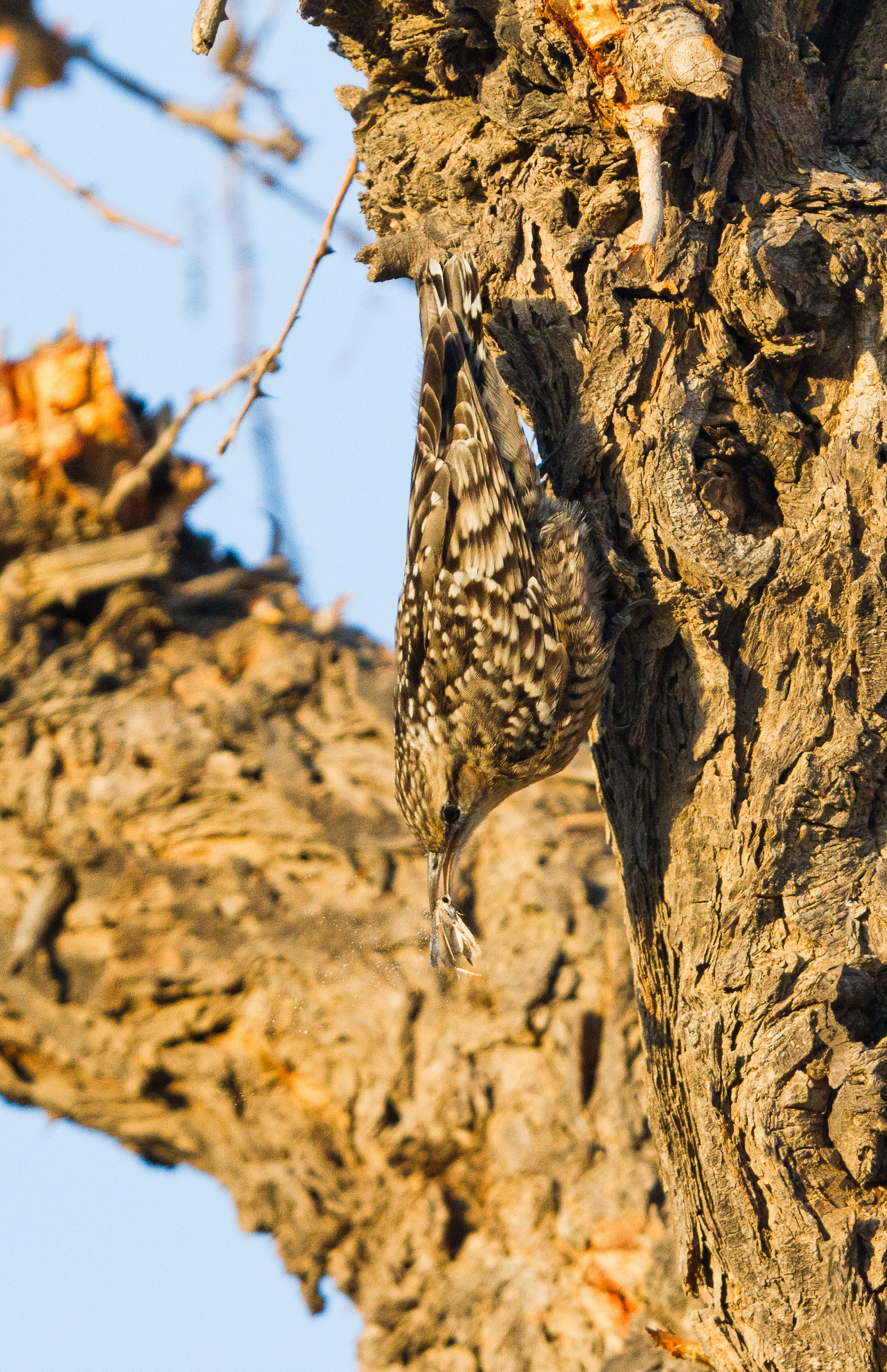 Indian Spotted Creeper feeding at Gaushaala, Tal Chappar December 2015